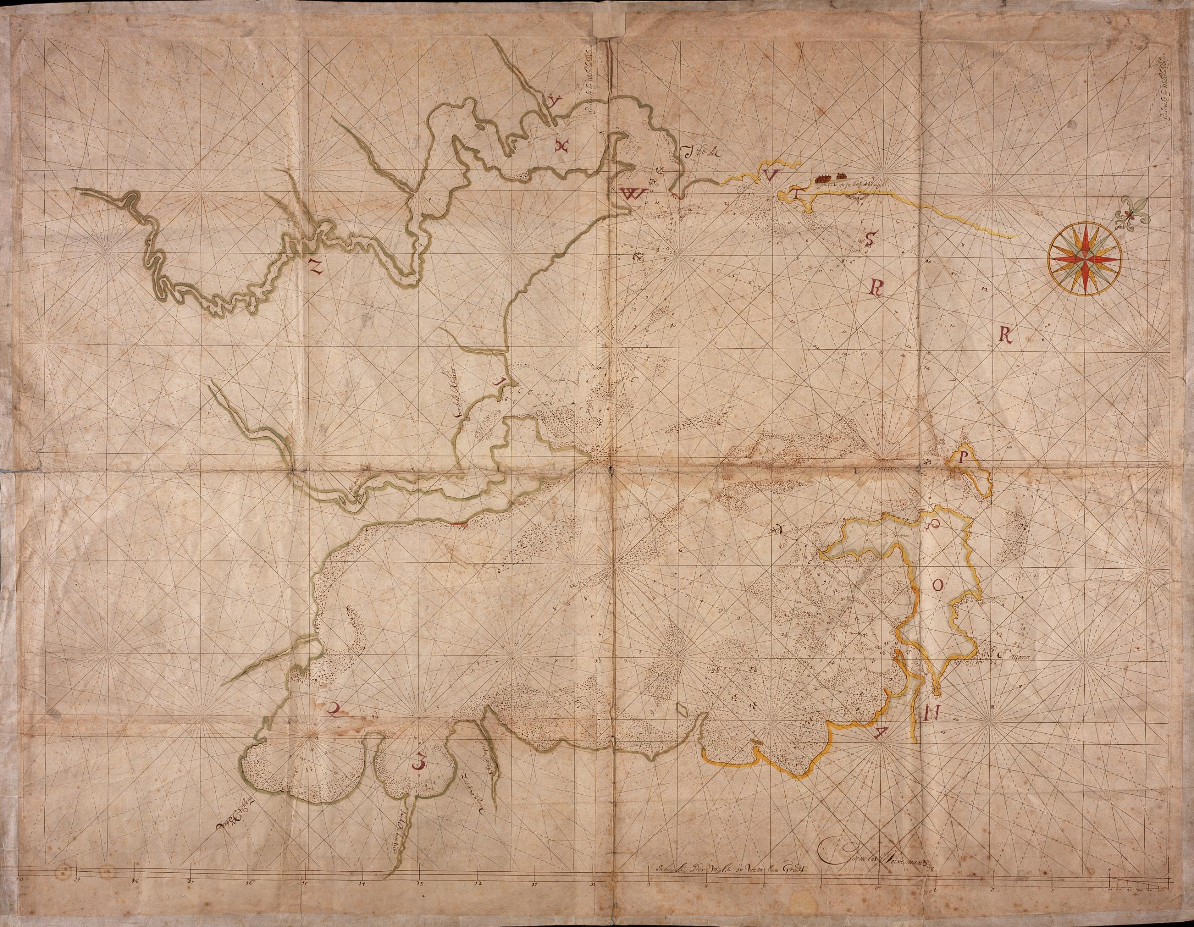 Title in the Leupe catalogue (NA): Kaart van de Delagaobaai. Compass lines printed by Willem Blaeu (this printed paper was used often afther his death in 1638). Notes on reverse: De Delagoa baai van Afrika [in pencil] / 23 [in pencil] / No. 2.